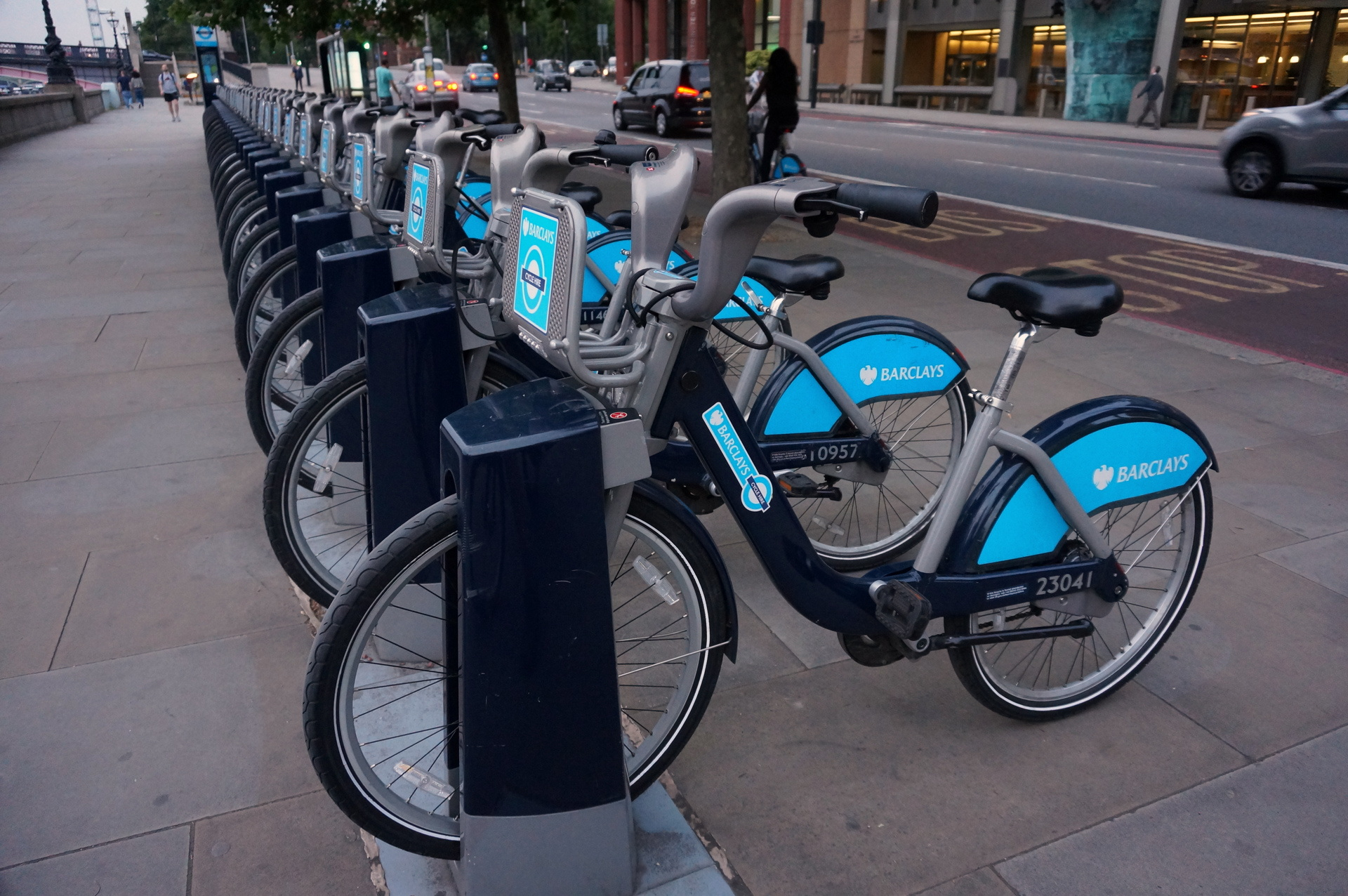 Bicycle Sharing System Barclays Cycle Hire in London. Docking station "Fire Brigade Pier, Vauxhall"